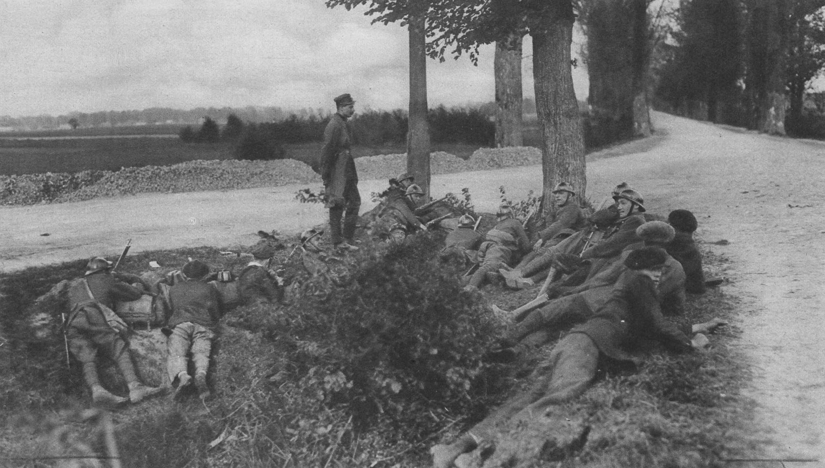 Marshal Piłsudski's soldiers during the 1926 coup d'état, near Wilanów.